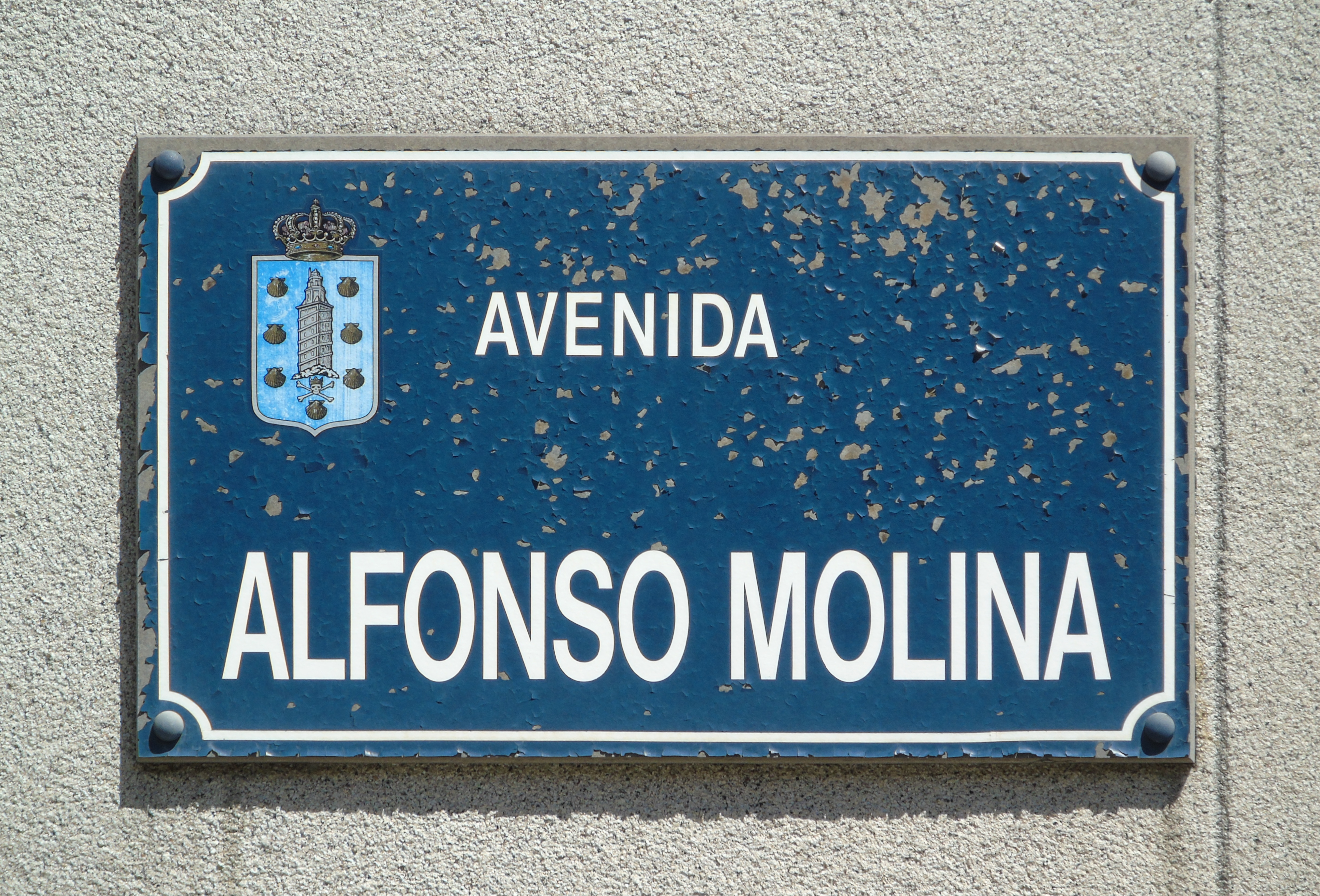 Alfonso Molina Avenue sign in A Coruña, Galicia, Spain.